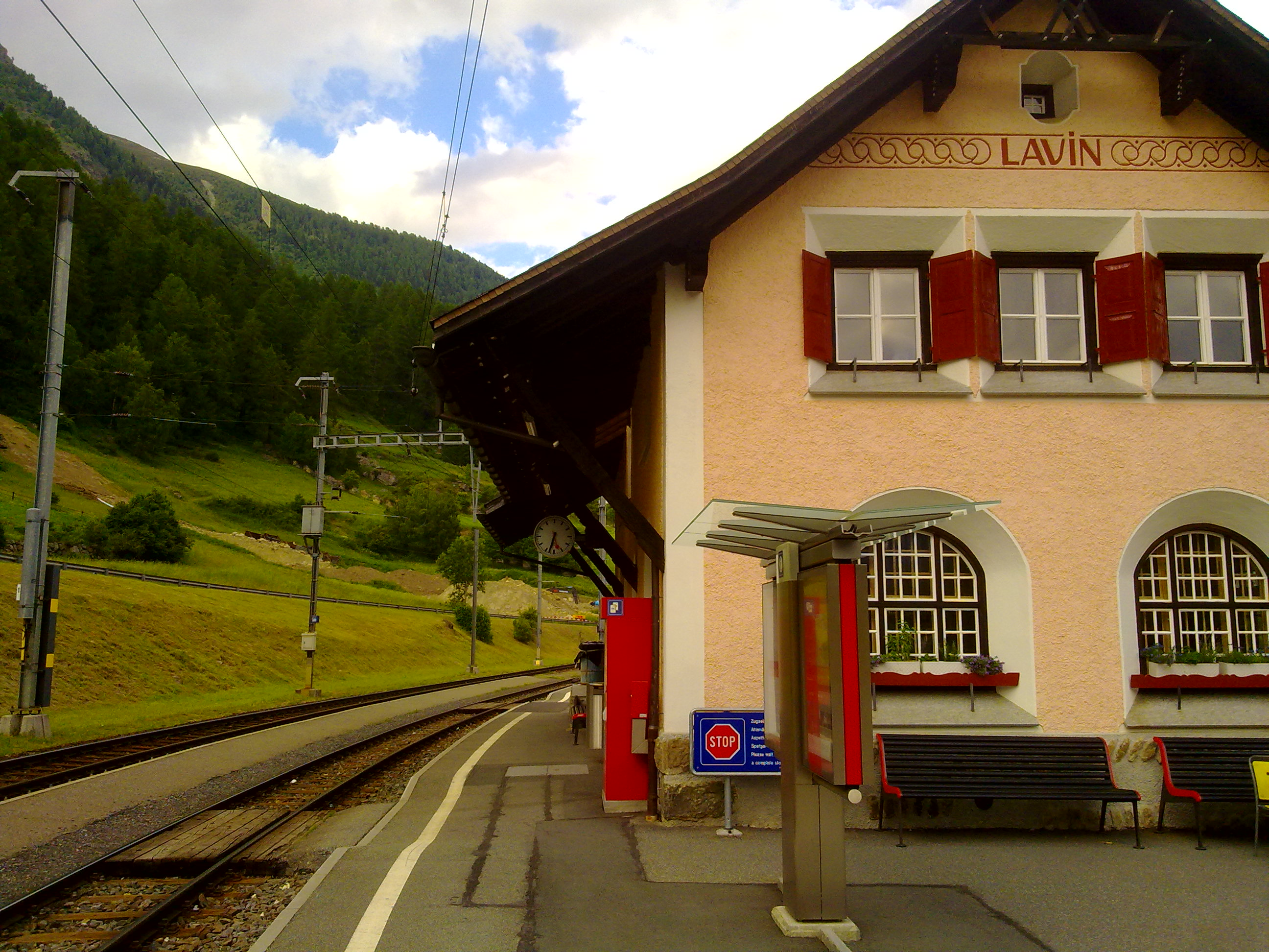 Lavin